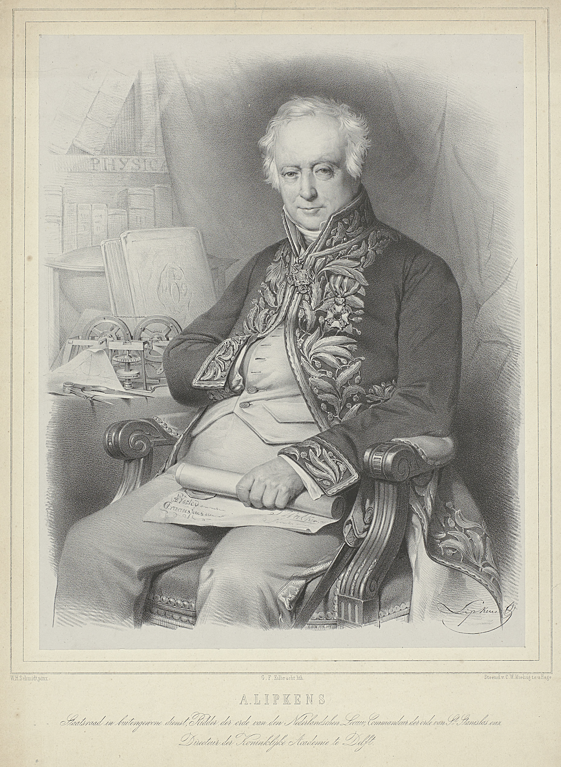 Portret van Antoine Lipkens (1782-1849), directeur Koninklijke Academie te Delft, voor gordijn in luxe stoel gezeten in kostuum met onderscheiding naar links. In zijn linkerhand houdt hij een opgerold papier en zijn rechterhand heeft hij in zijn gilet gestoken. Links naast hem een tafel met daarop boeken, tekeningen en instrumenten en een boekenkast met boeken over physica. De prent is gemonteerd op blad met omlijsting en opschriften.